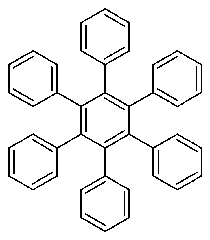 Hexaphenylbenzene